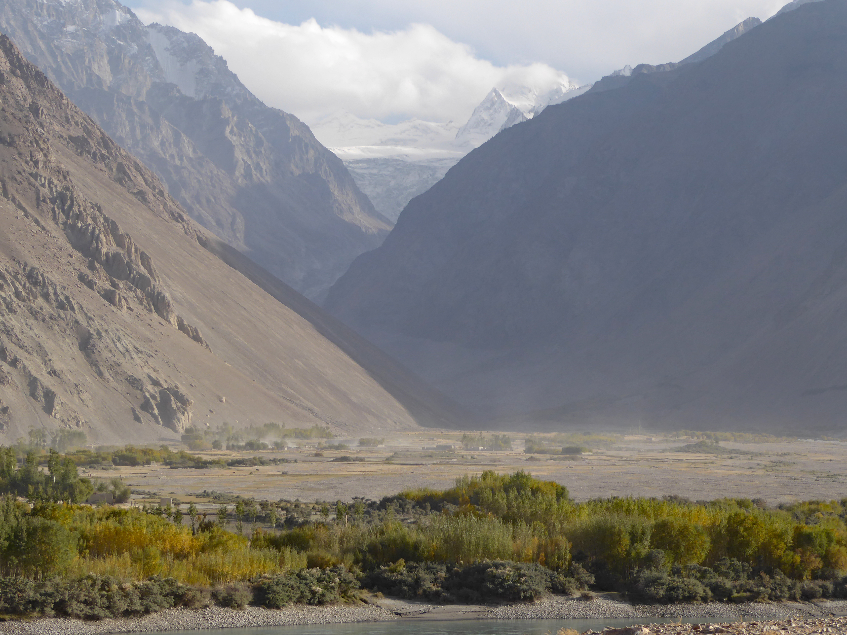 Afghan mountains